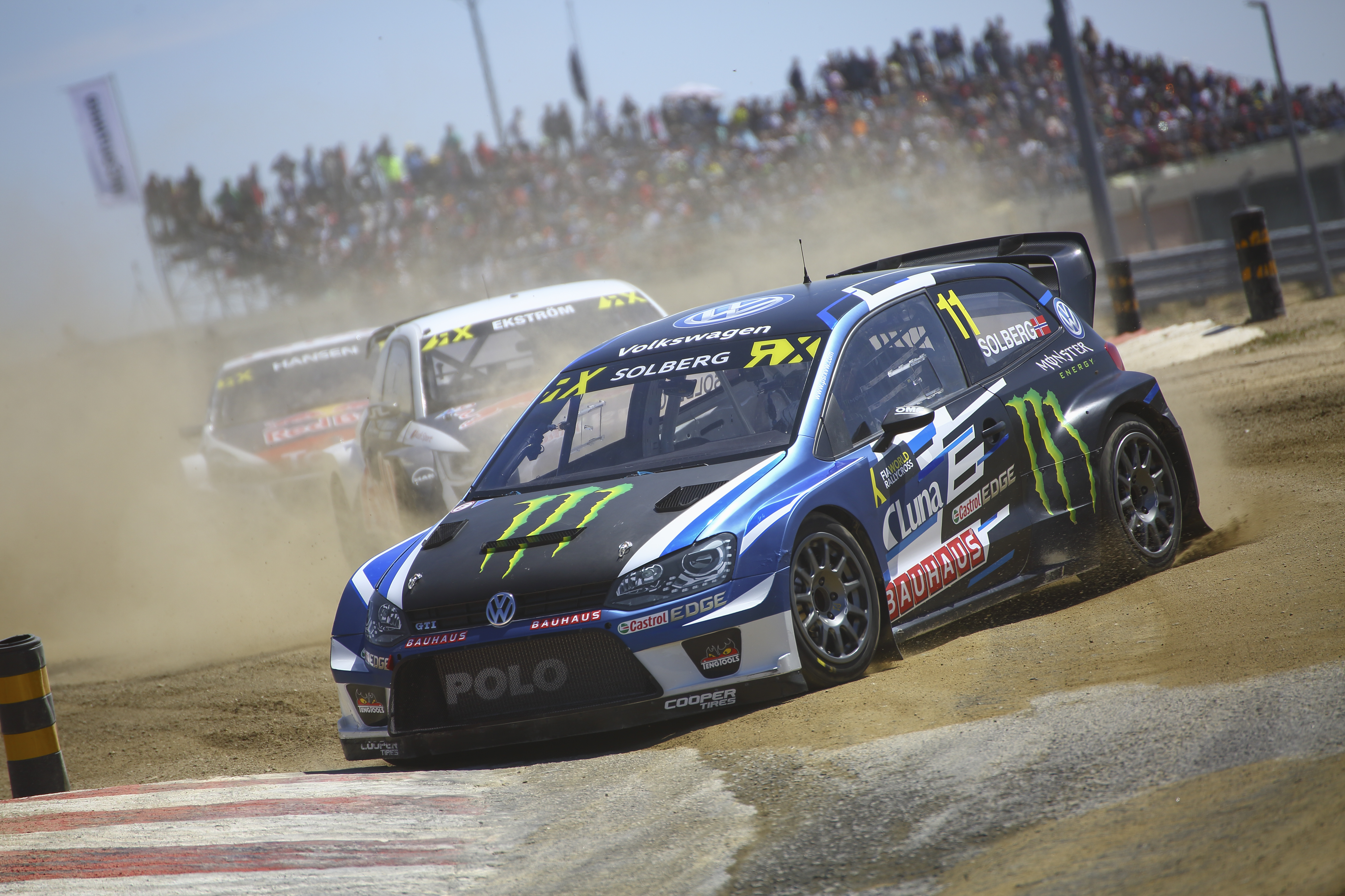 Petter Solberg, FIA World RX of Portugal 2017 in Montalegre